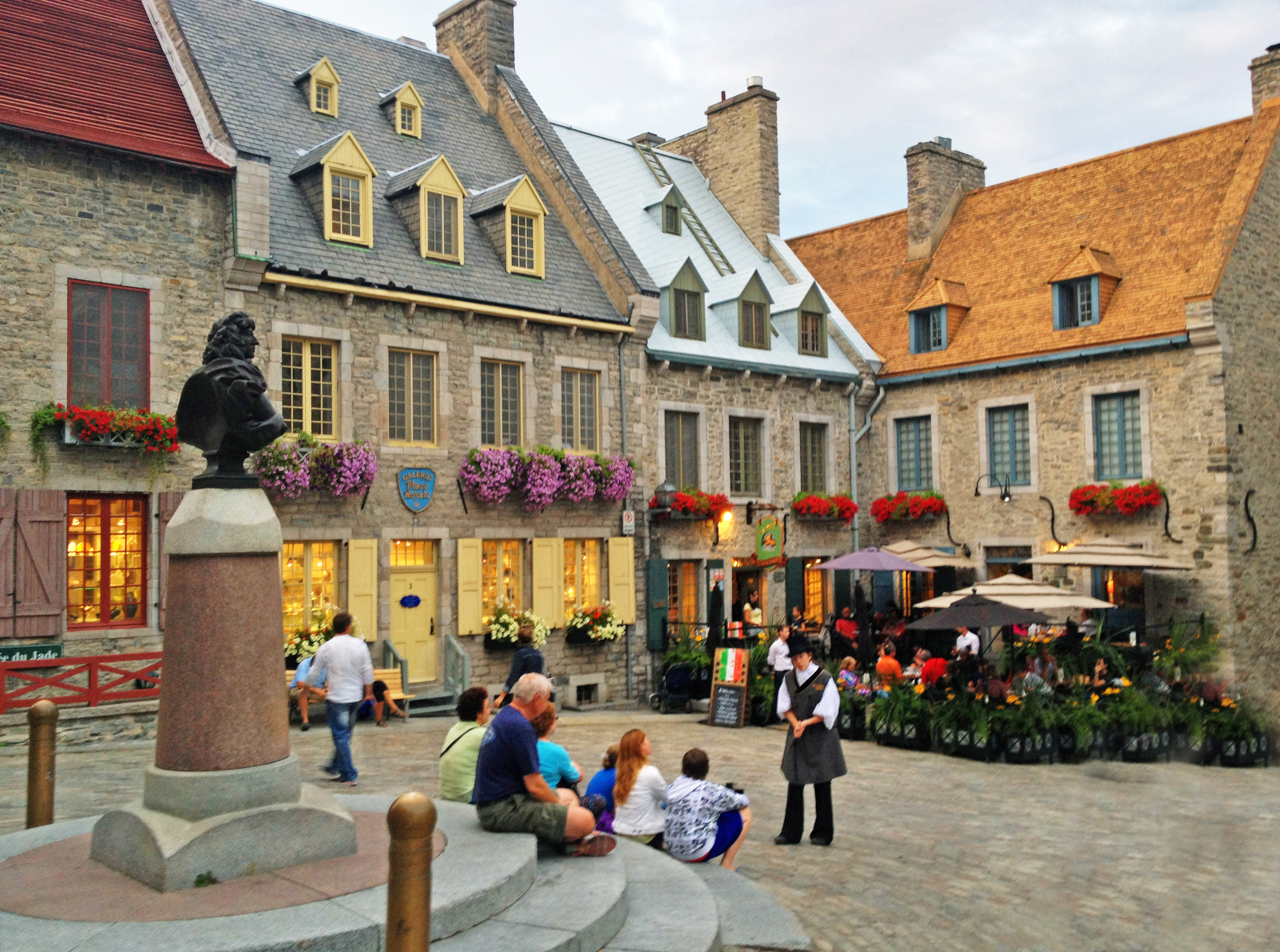 Place Royale in Old Quebec at Quebec City, Canada